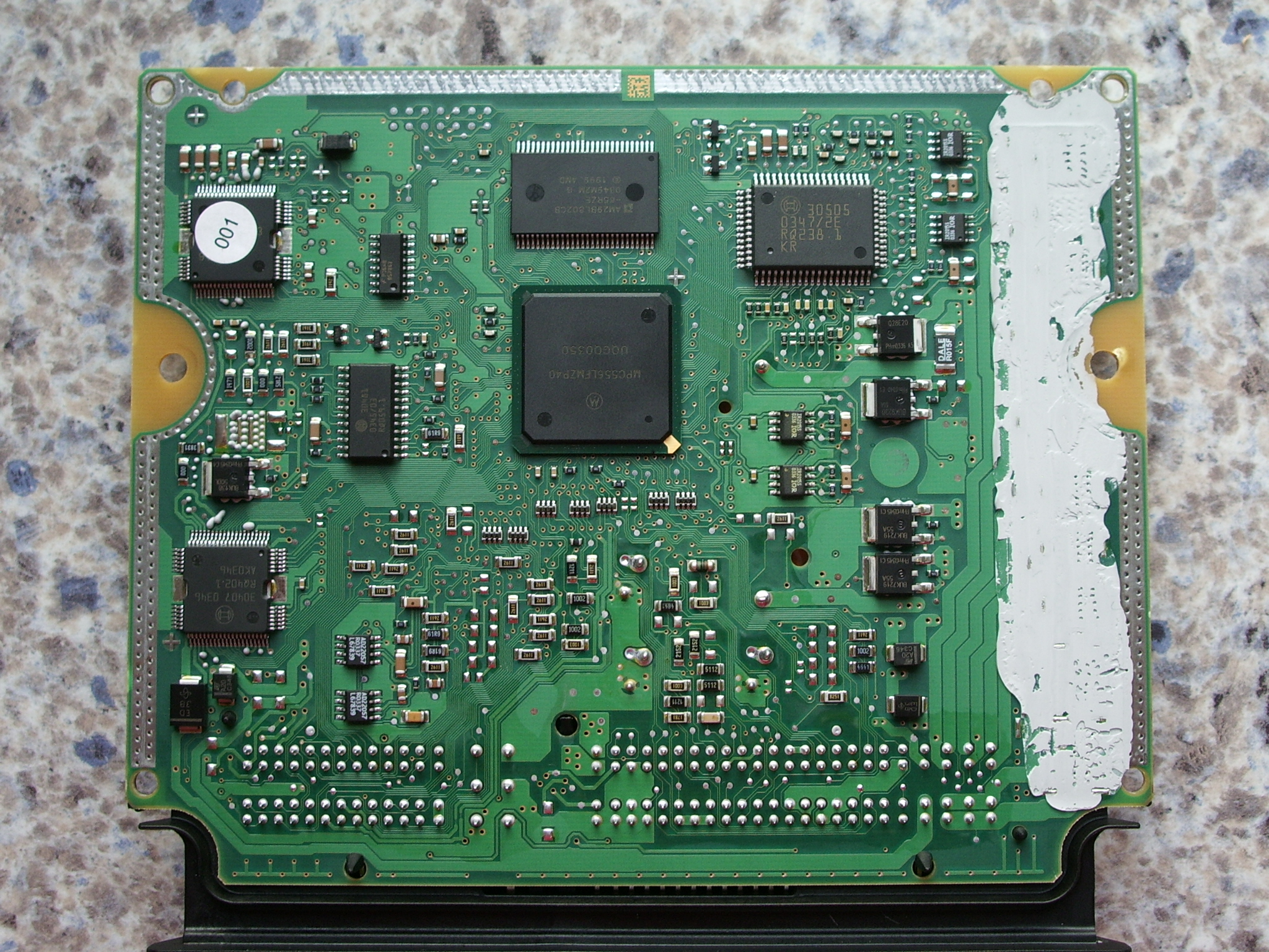 Electronic Diesel Control ECU, Common Rail System, view on logic-, signal and microcontroller side